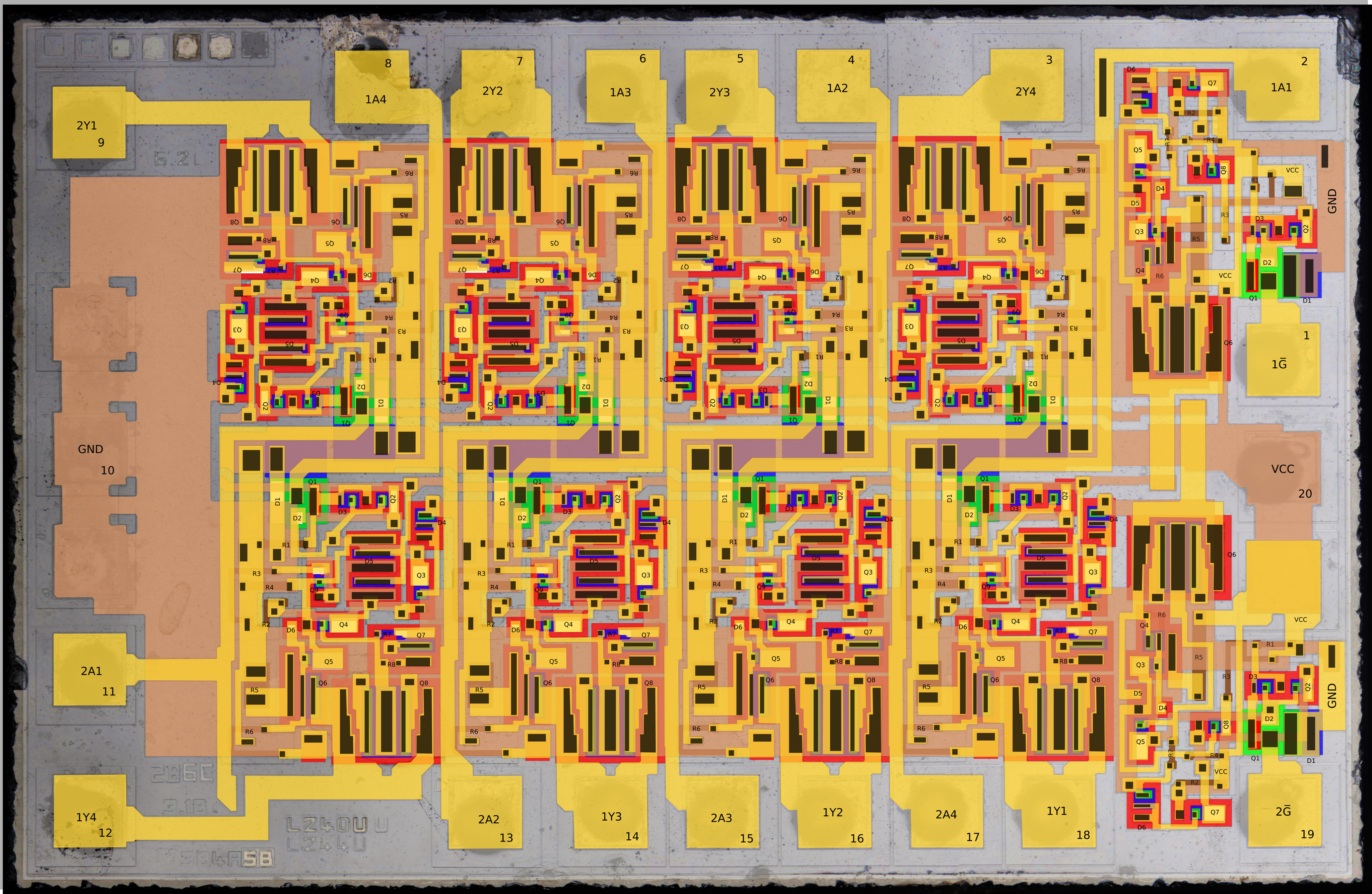 Annotated die photo of a Fairchild 74LS244 chip datecode 8314